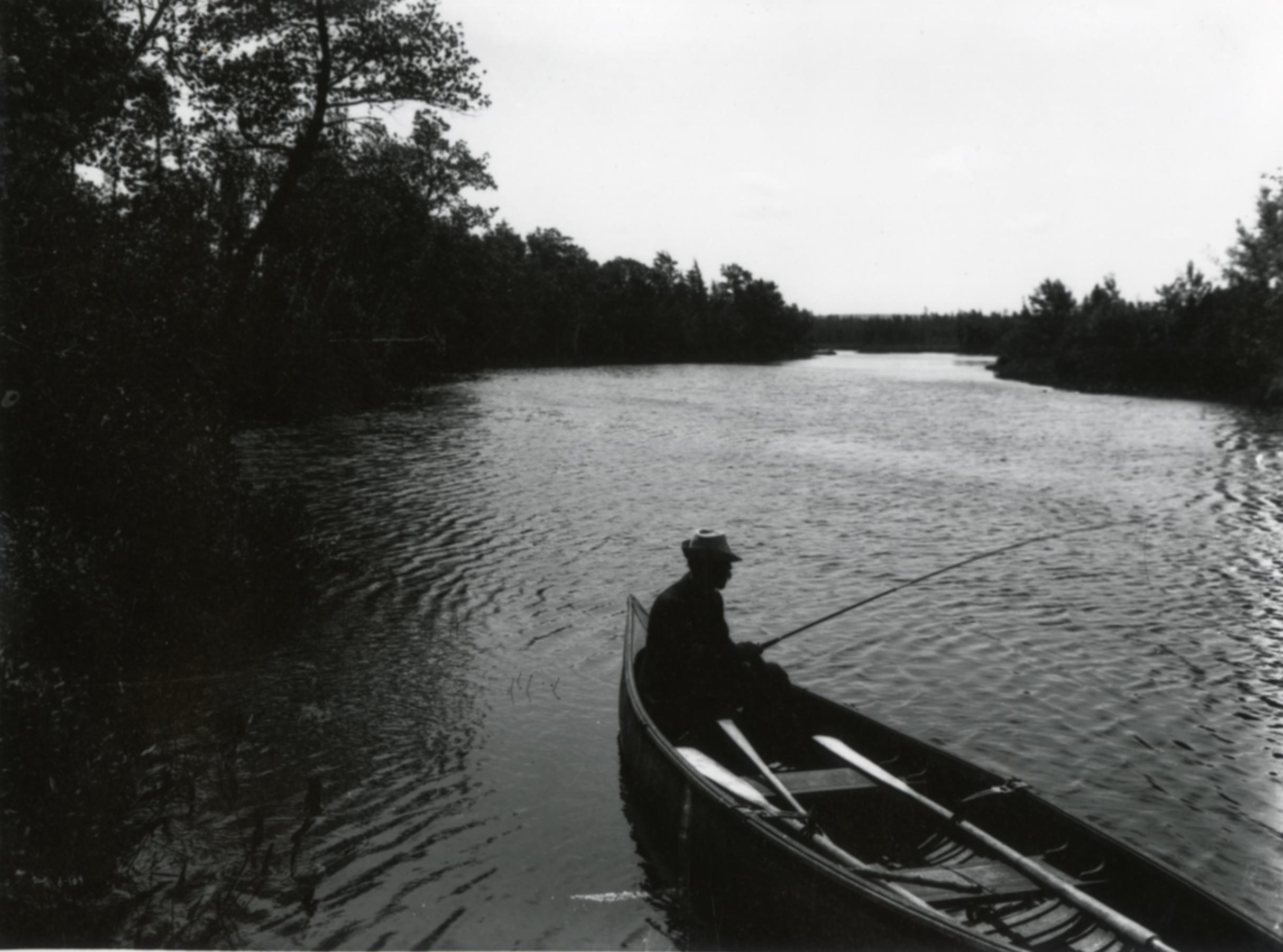 "Mr. Lindstrum" fishing on the West River at Kejimkujik ca. 1919